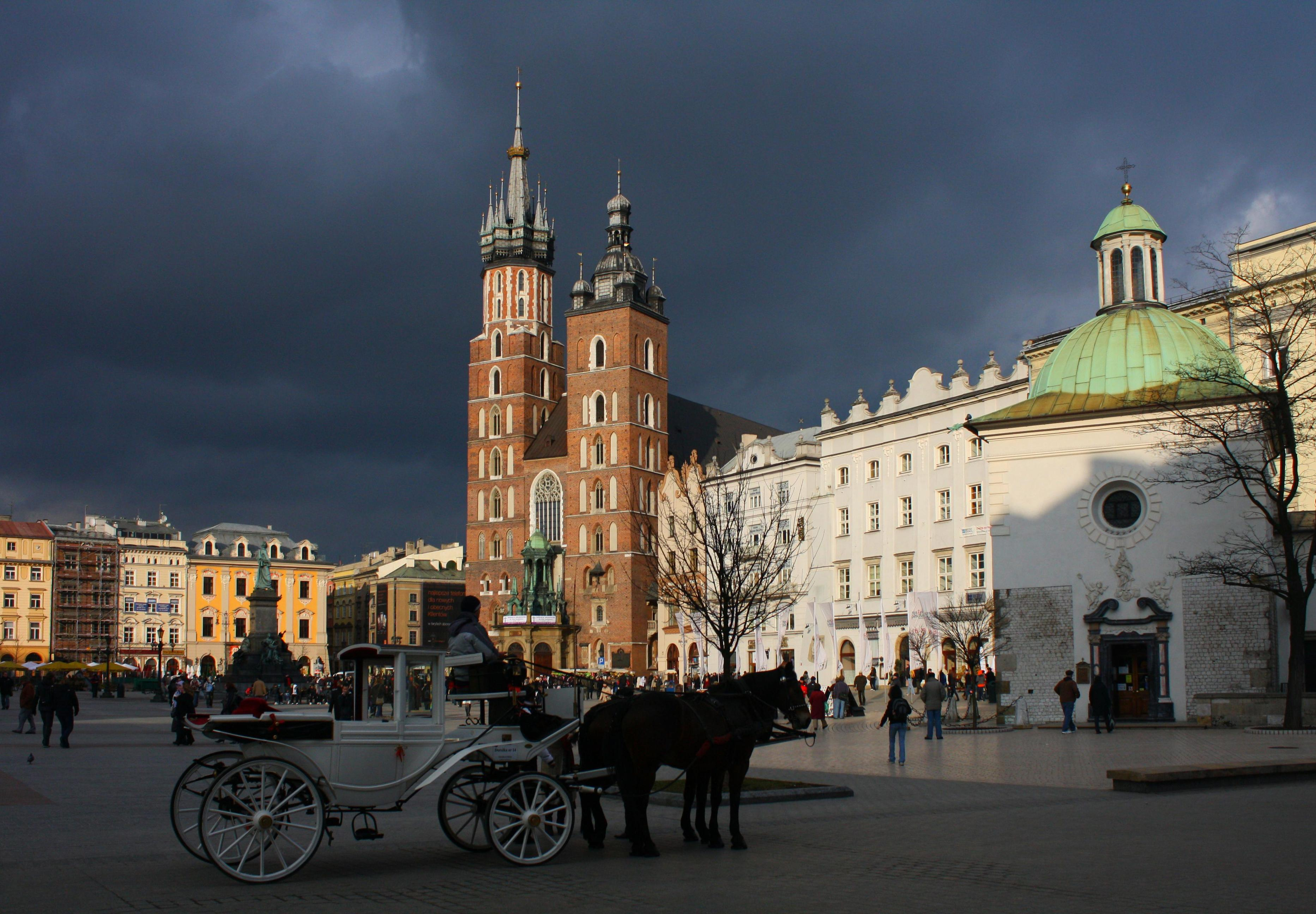 Cracow, Market Square with St Mary and St. Adalbert Churches